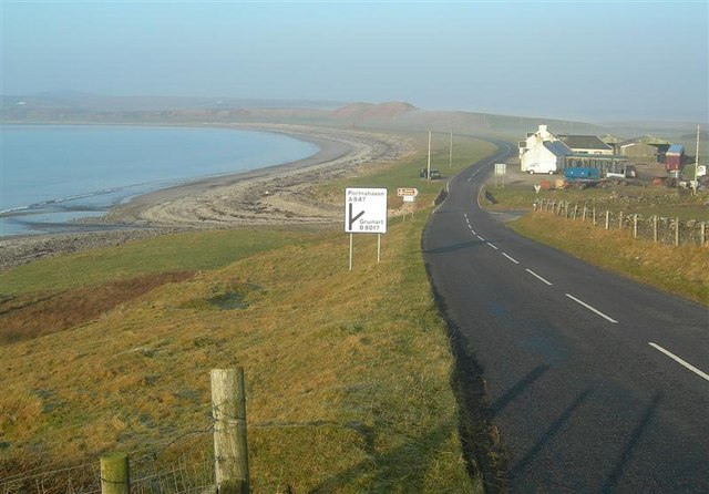 The A847 at Uiskentuie Viewed on a fine, frosty February morning. The A847 continues to Portnahaven, located at the tip of the Rhinns of Islay.